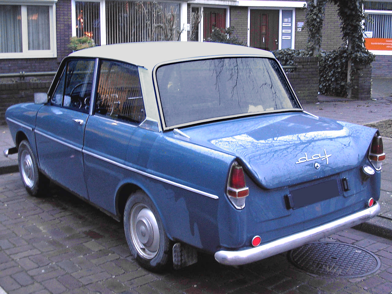 DAF 31 (en) or "Daffodil 31". Dutch registration from 30-03-1965. Location: Sittard, Netherlands Keywords: variomatic, two-tone